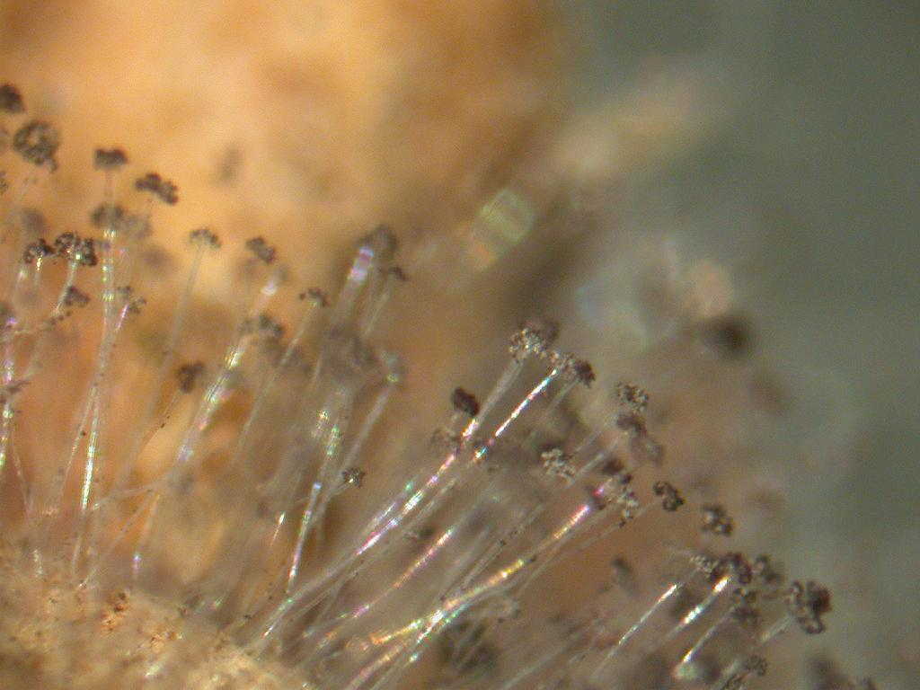 Choanephora cucurbitarum (Choanephoraceae Mucorales)on Pumpkin flower Japanese name;Kougaikekabi Date;2004,07,22;Susami town, Wakayama prefecture, Japan Author;Keisotyo